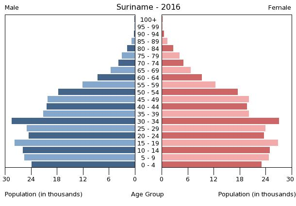 The population pyramid of Suriname illustrates the age and sex structure of population and may provide insights about political and social stability, as well as economic development. The population is distributed along the horizontal axis, with males shown on the left and females on the right. The male and female populations are broken down into 5-year age groups represented as horizontal bars along the vertical axis, with the youngest age groups at the bottom and the oldest at the top. The shape of the population pyramid gradually evolves over time based on fertility, mortality, and international migration trends.